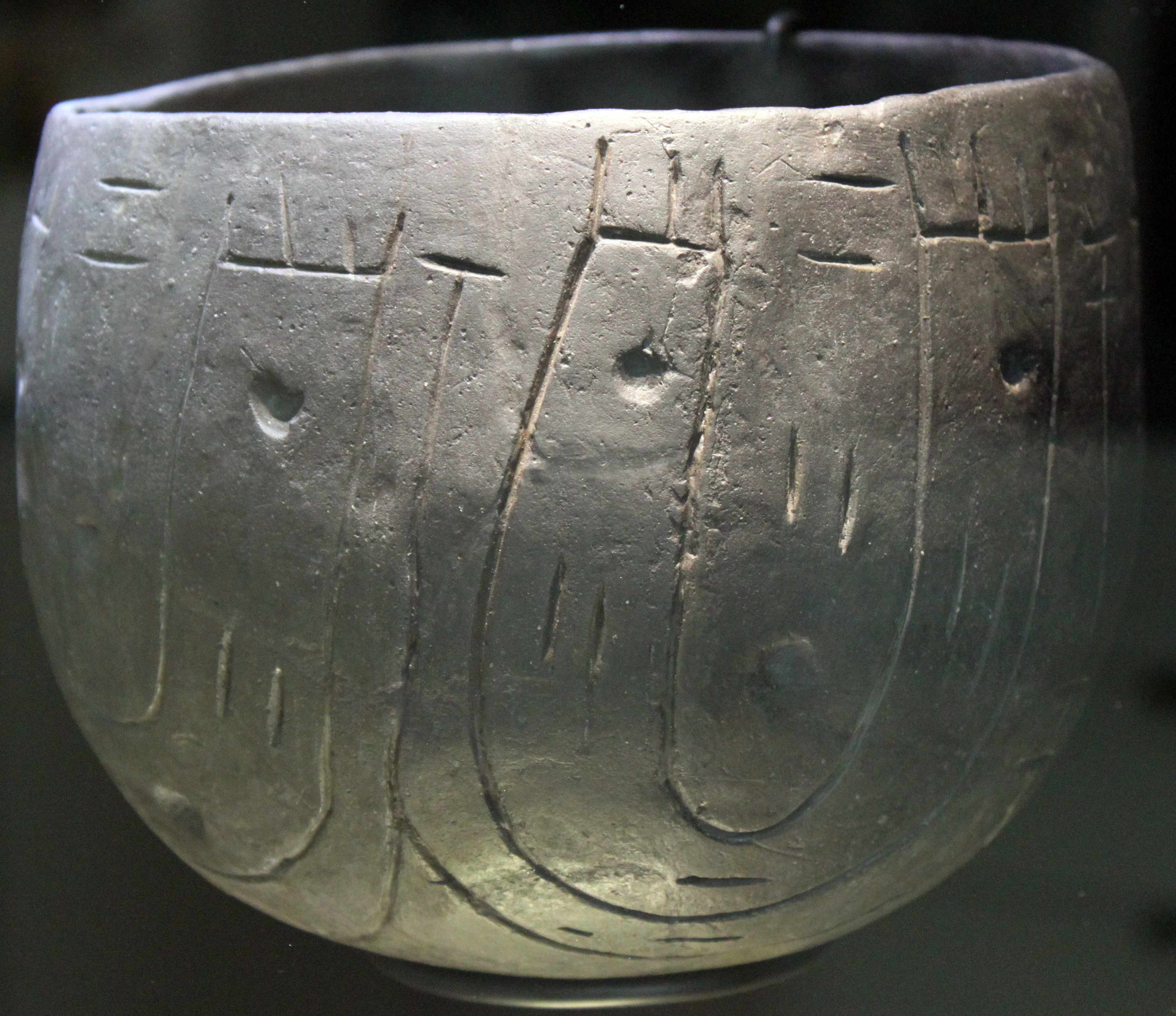 Linear Pottery vessel, Steinheim an der Murr, Ludwigsburg region, shown at the Landesmuseum Württemberg, Stuttgart, Germany